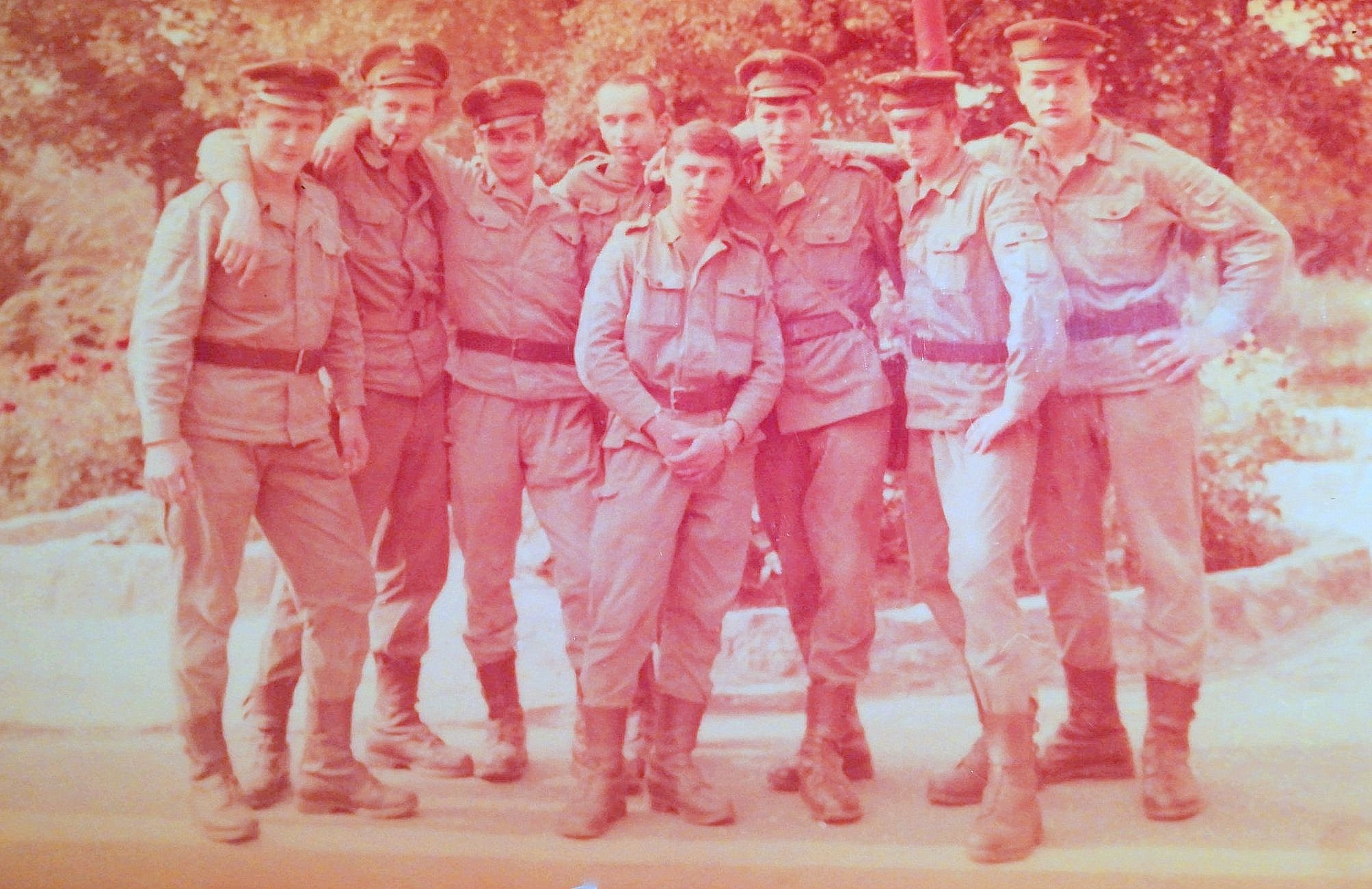 Border Protection Forces in Krasne Pole